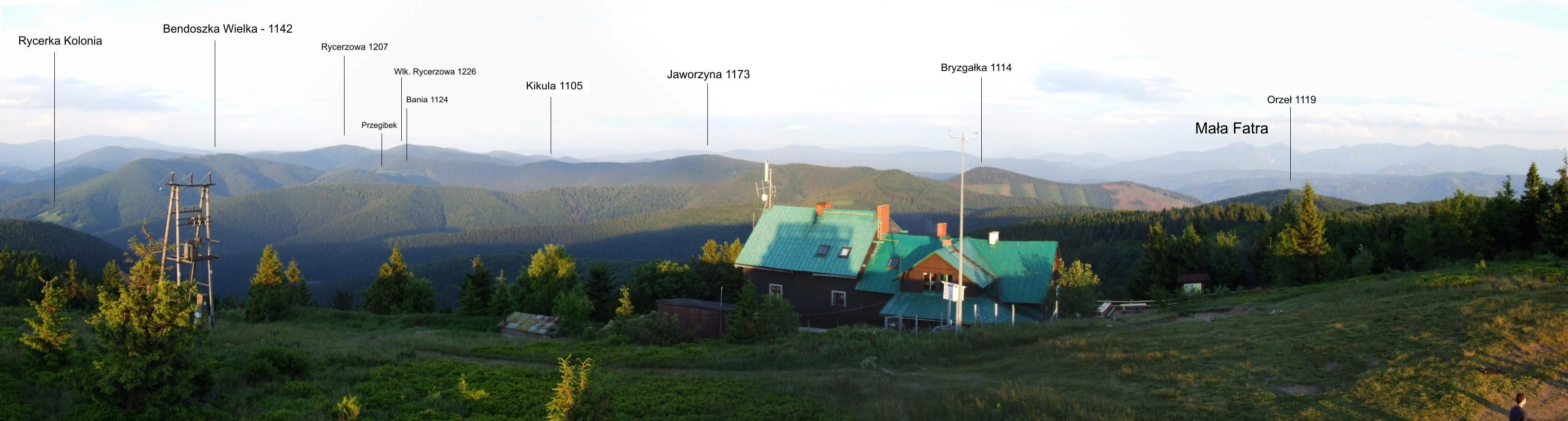 Panorama from Wielka Racza mount